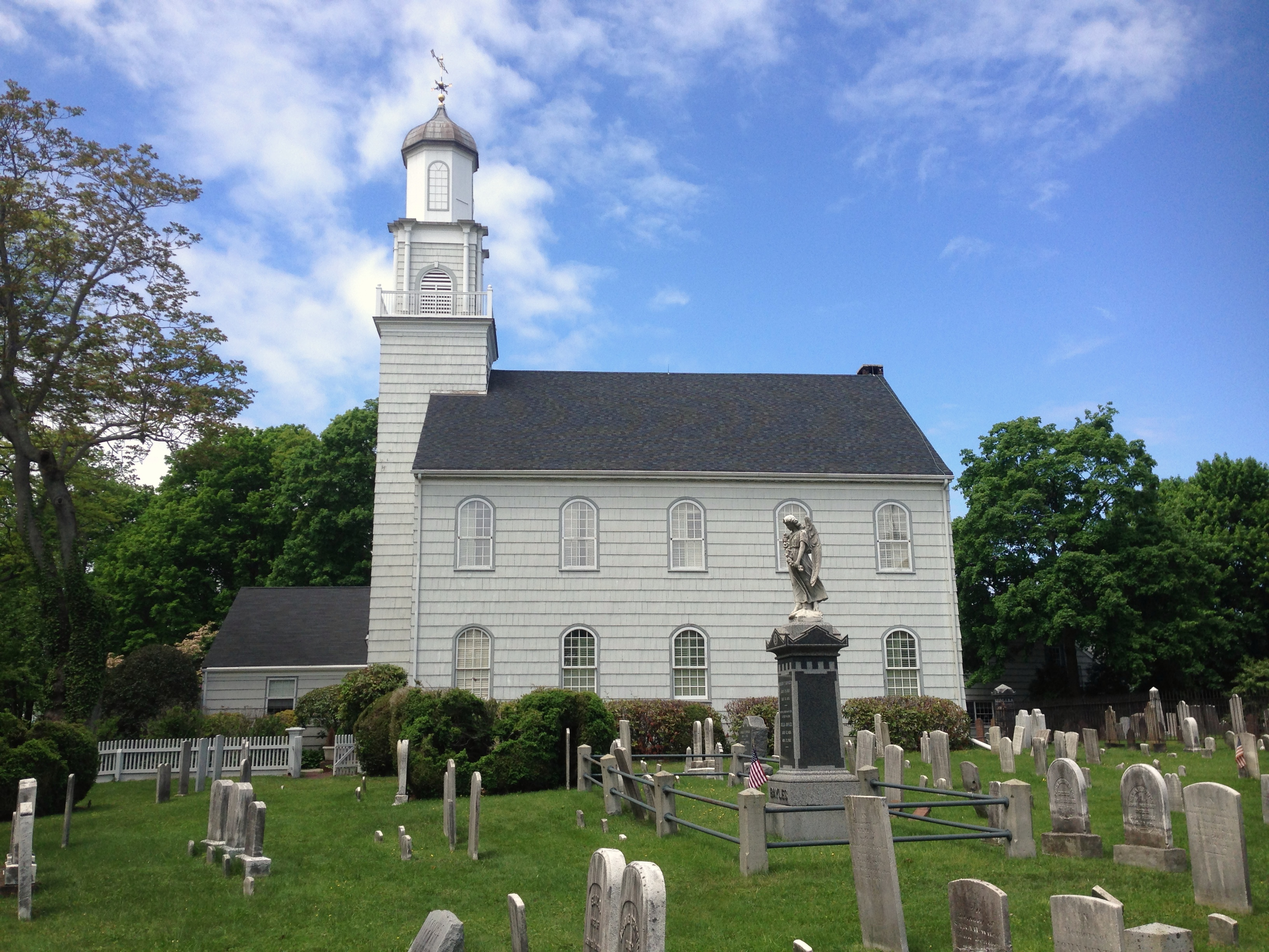 The Setauket Presbyterian Church in Setauket, New York. The building dates to 1812 (replacing earlier structures) while the graveyard was established in the 1660s.